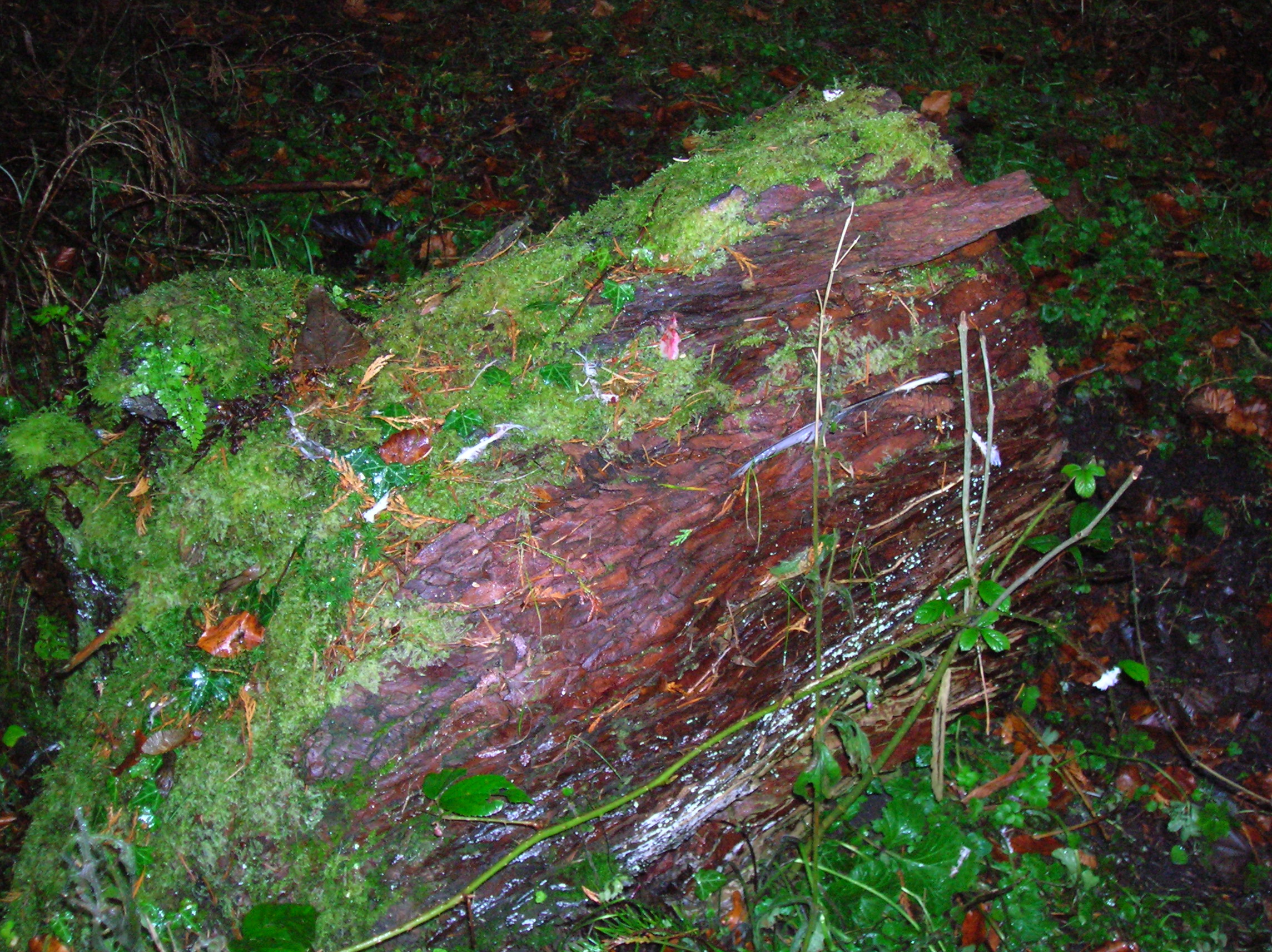 A Plucking Post at Monkcastle, North Ayrshire, Scotland.